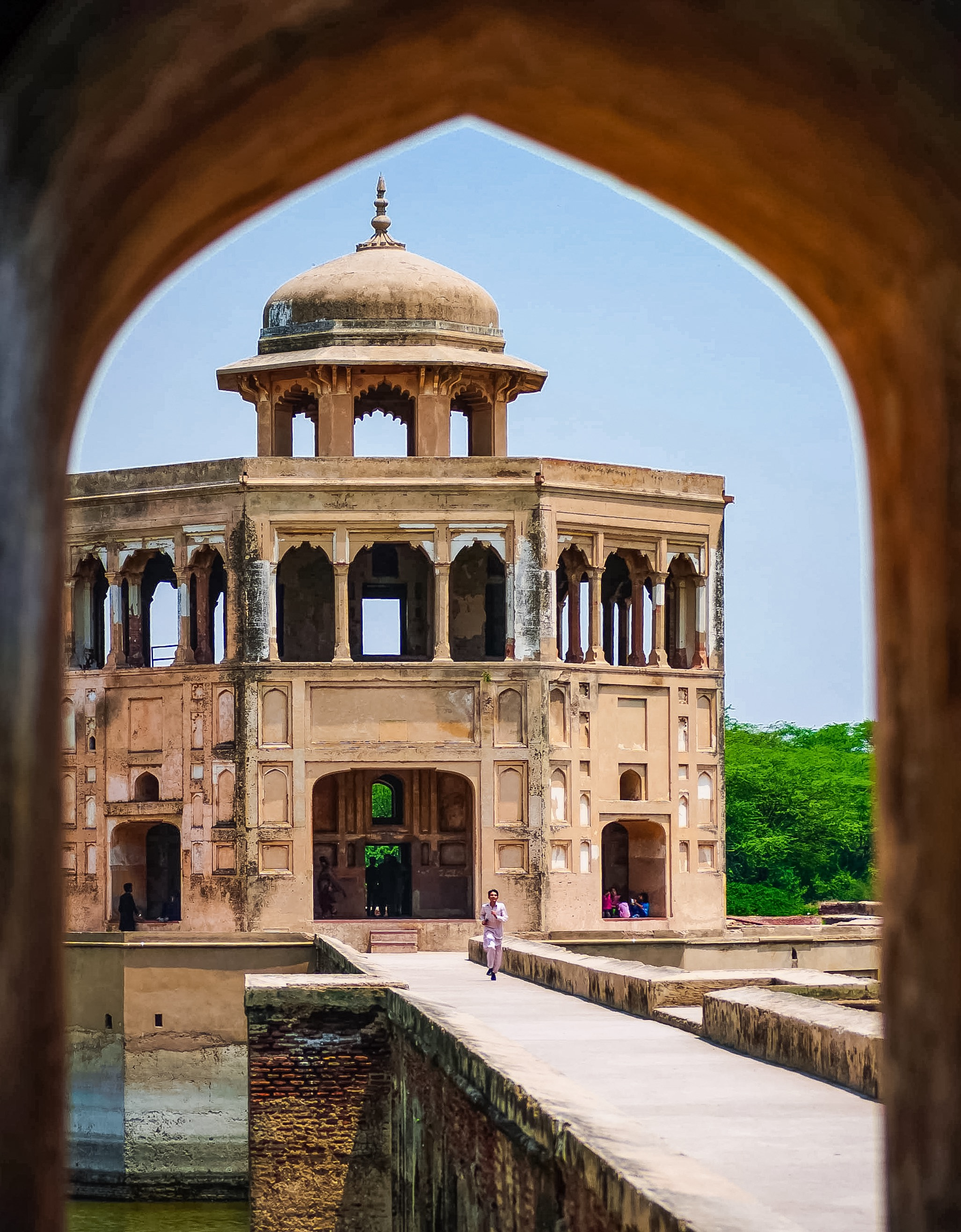 Hiran Minar and Tank This is a photo of a monument in Pakistan identified as the PB-145